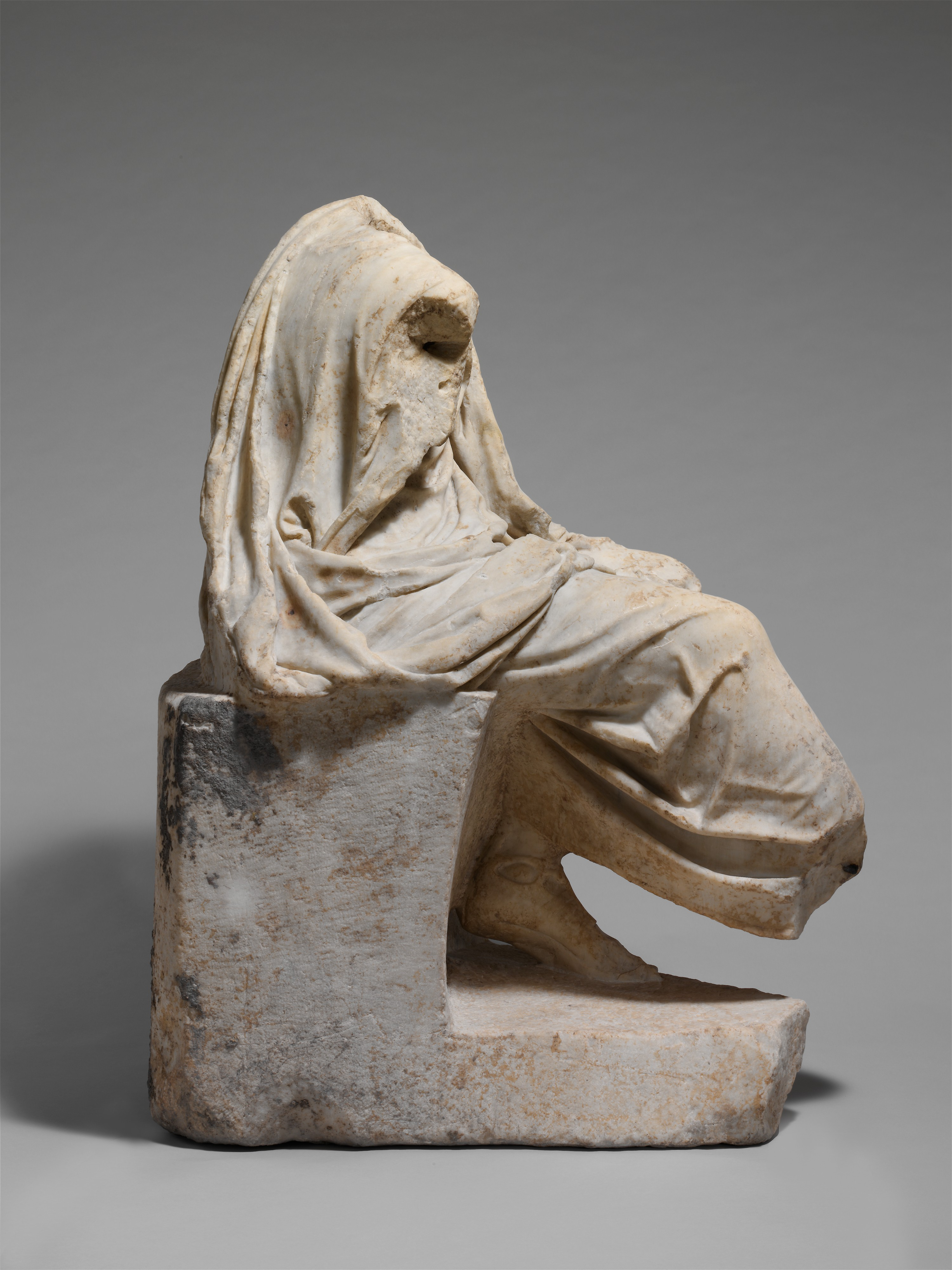 Roman; Statue of a philosopher or poet ?; Stone Sculpture